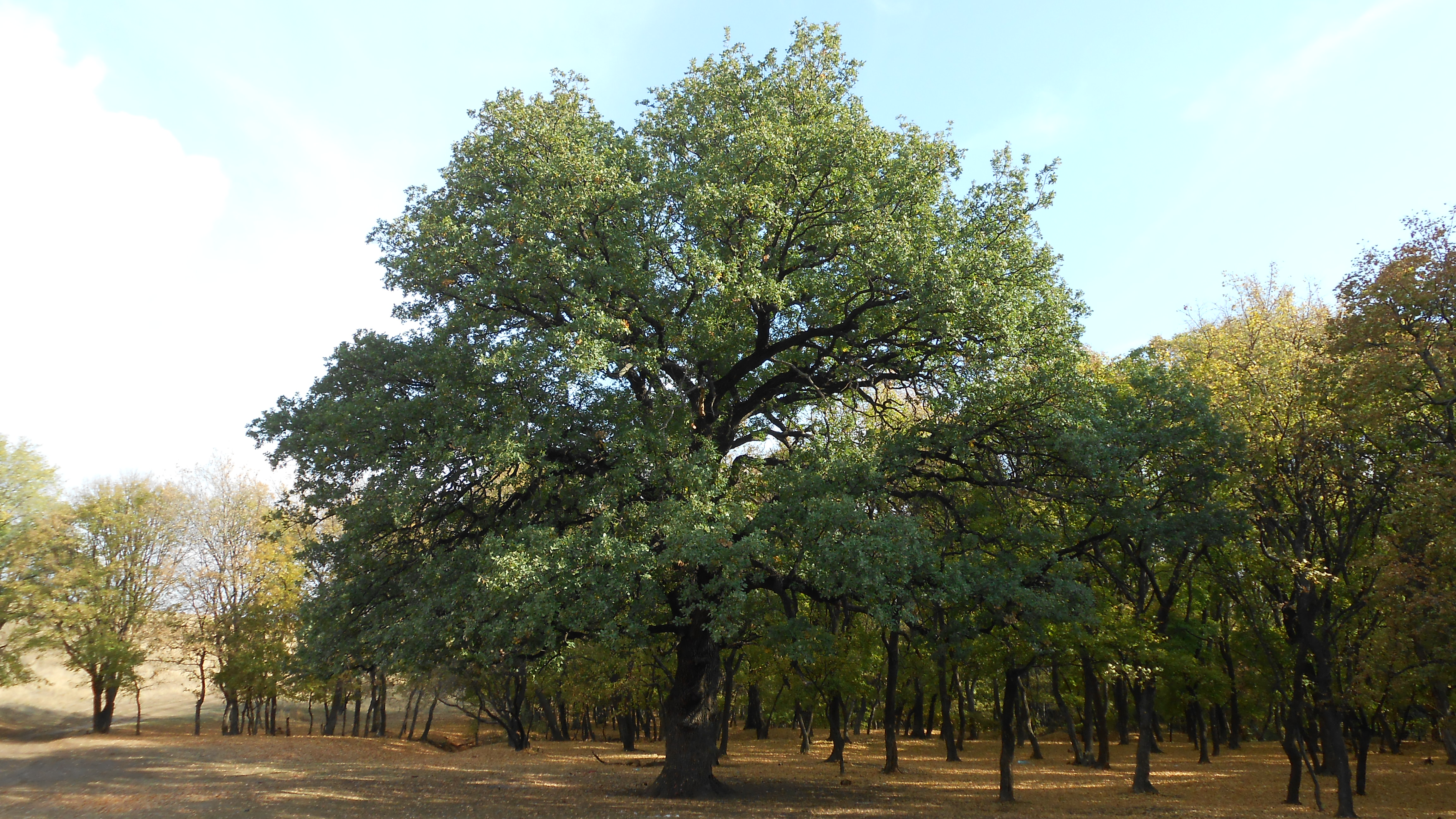 Provalsky oak in Sverdlovsk Raion, Luhansk Region, Ukraine